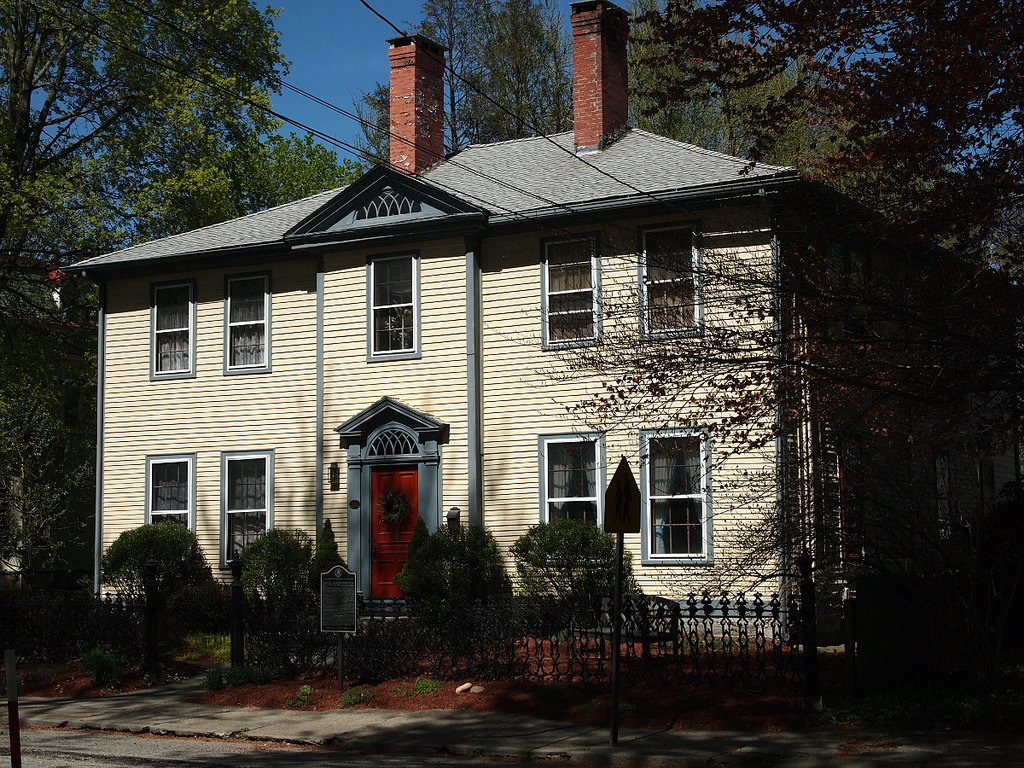 Connecticut - New London County - Norwich National Register of Historic Places #70000718 NRIS 2011 May 01 from Union Park, view NE edit: resize Built late 18th century. Previously Norwich School for Girls, run by the poet Lydia Sigourney (1811). Private residence.